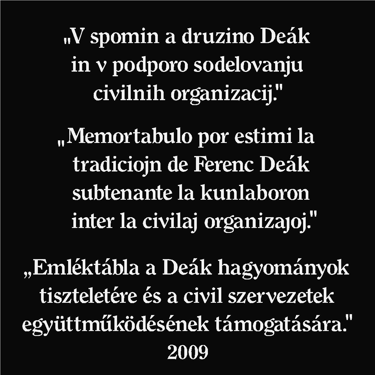 Slovenia, Hungary Esperanto Plaque, Lendava, Slovenia